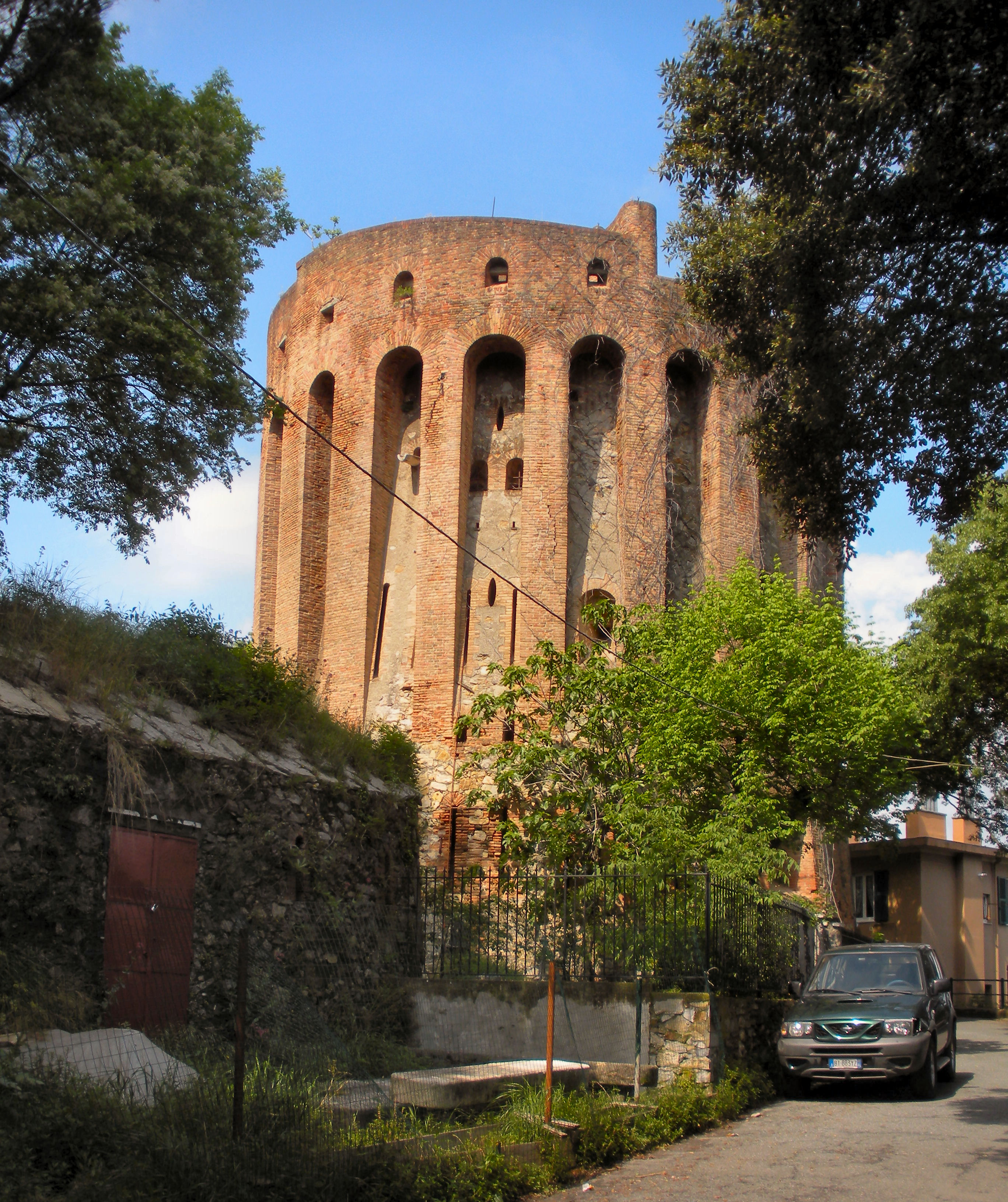 Genoa (Italy), quarter of Staglieno, St. Bernardino tower